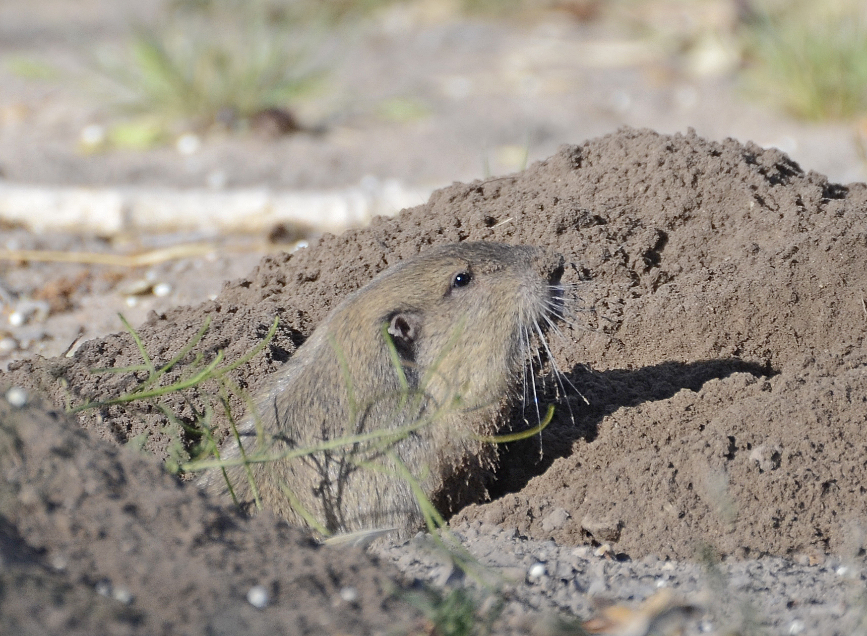 Botta's Pocket Gopher, southern Nevada